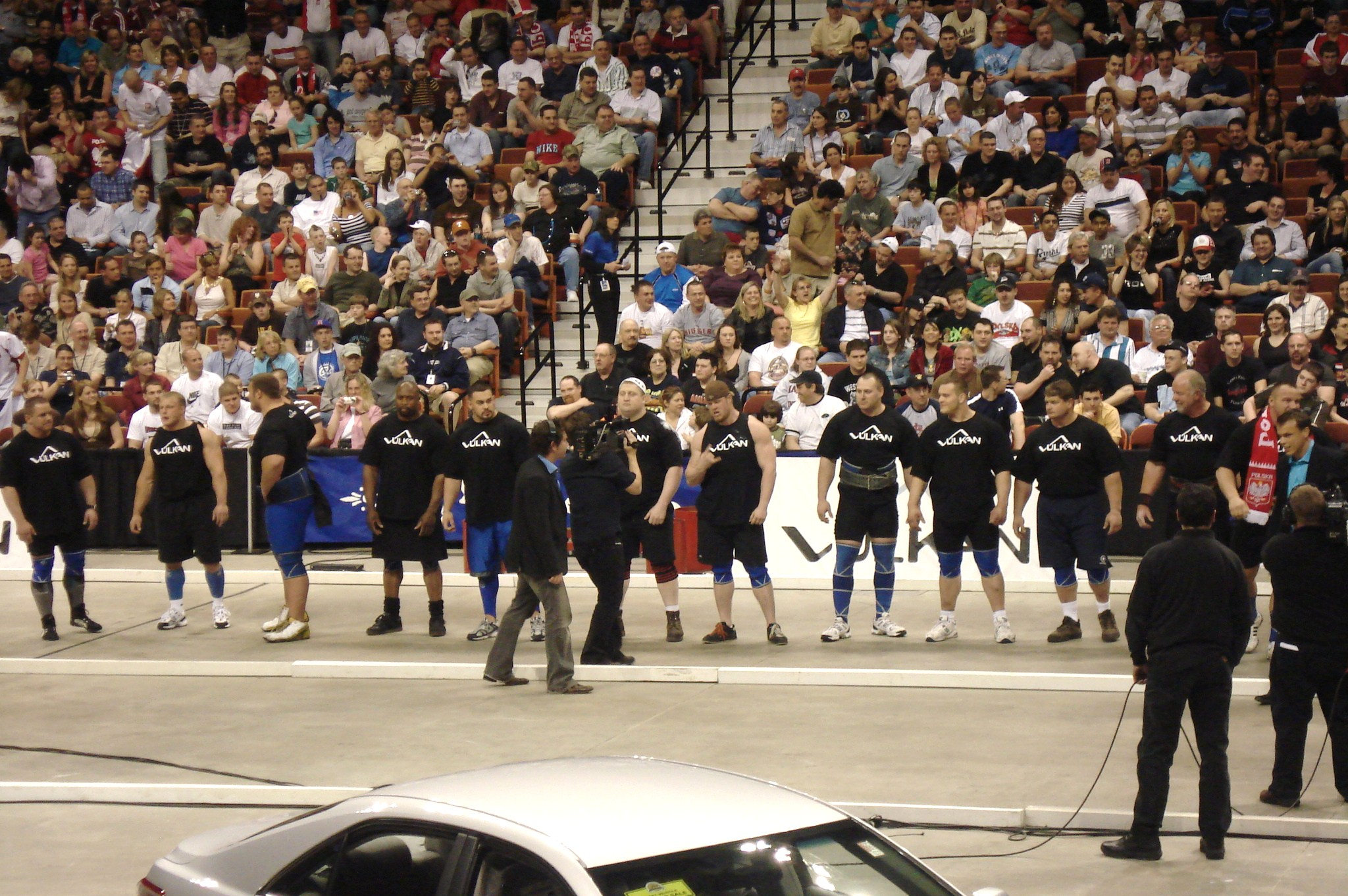 Super Series 2007: Mohegan Sun Grand Prix. Strength athletes, the Lineup.